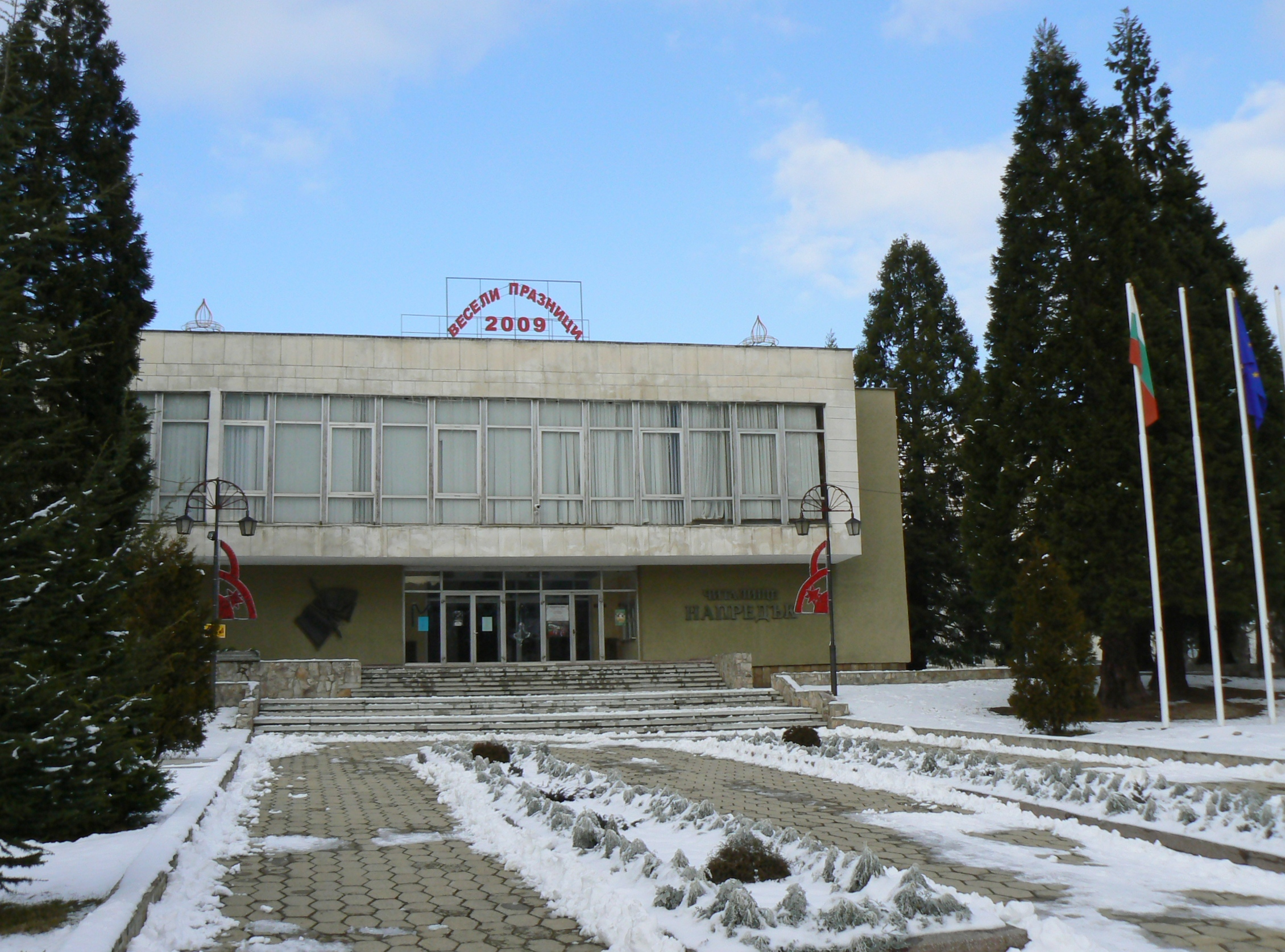 Library "Napredak" in the town on Pirdop, Bulgaria